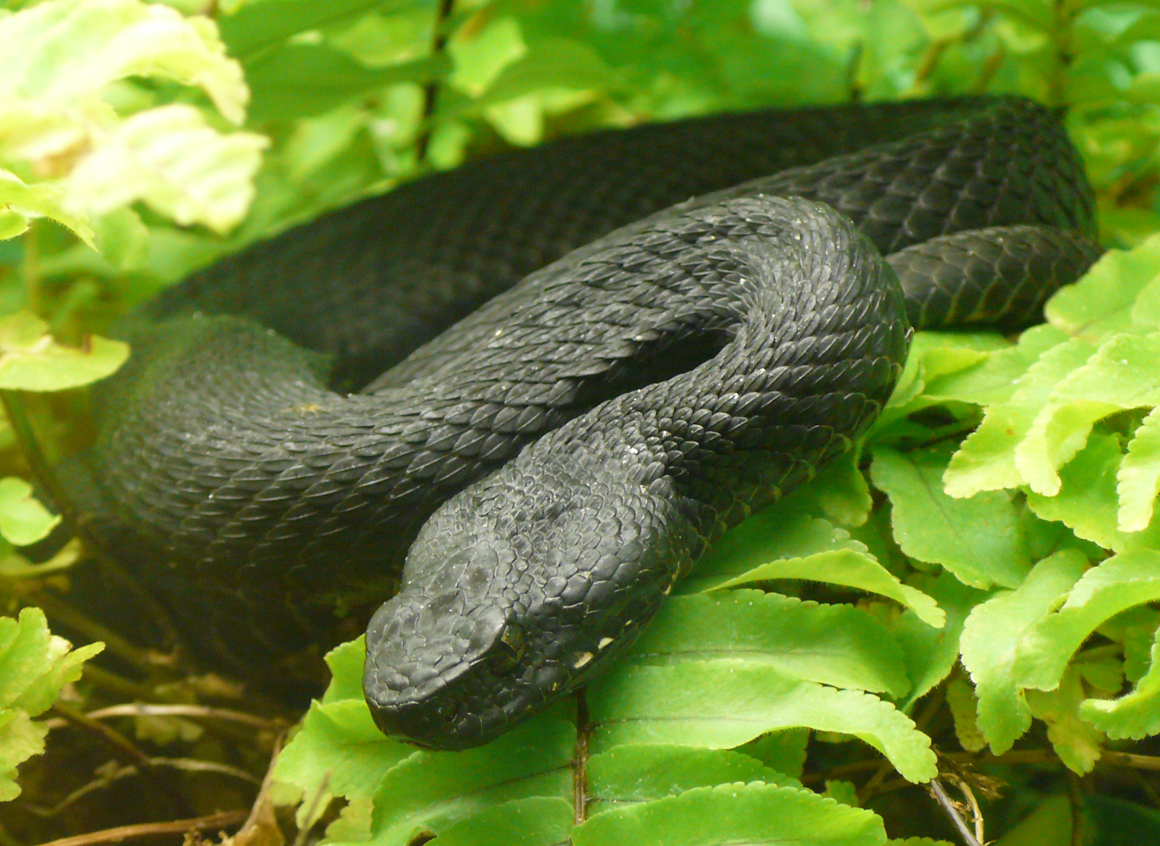 Caucasus viper (Vipera kaznakovi)